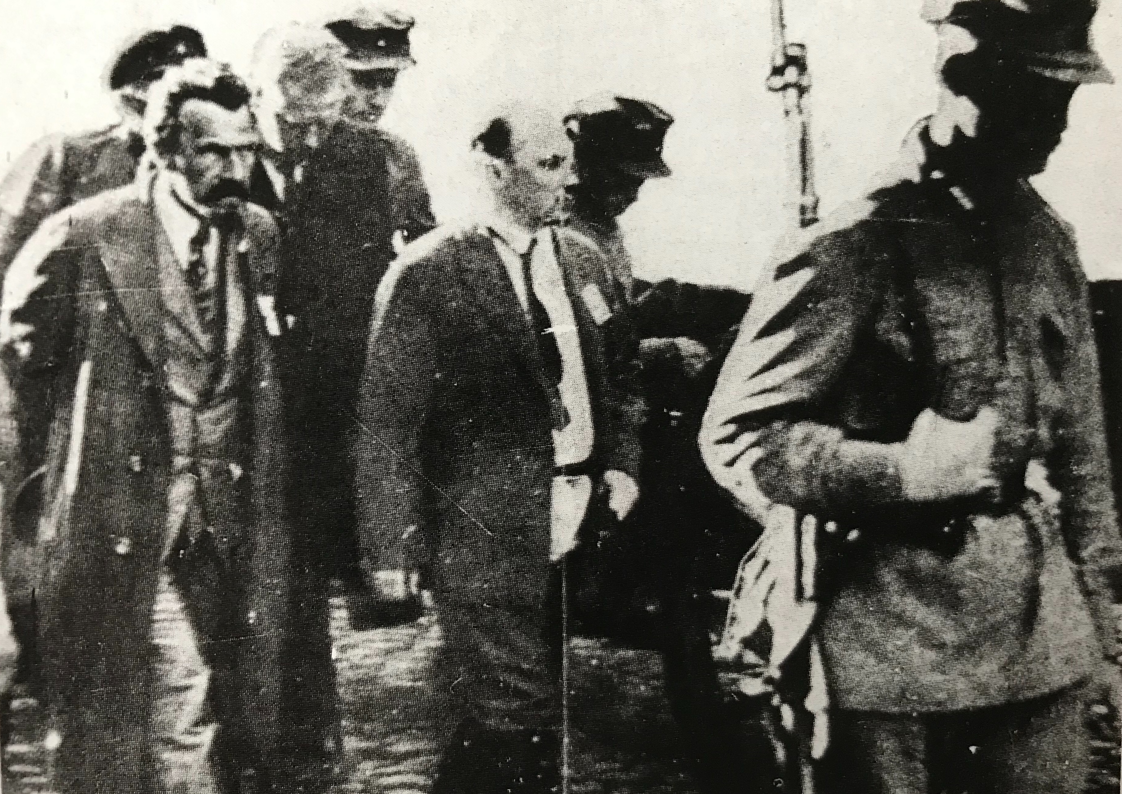 Bucharin and Rykov, 1938, before trial